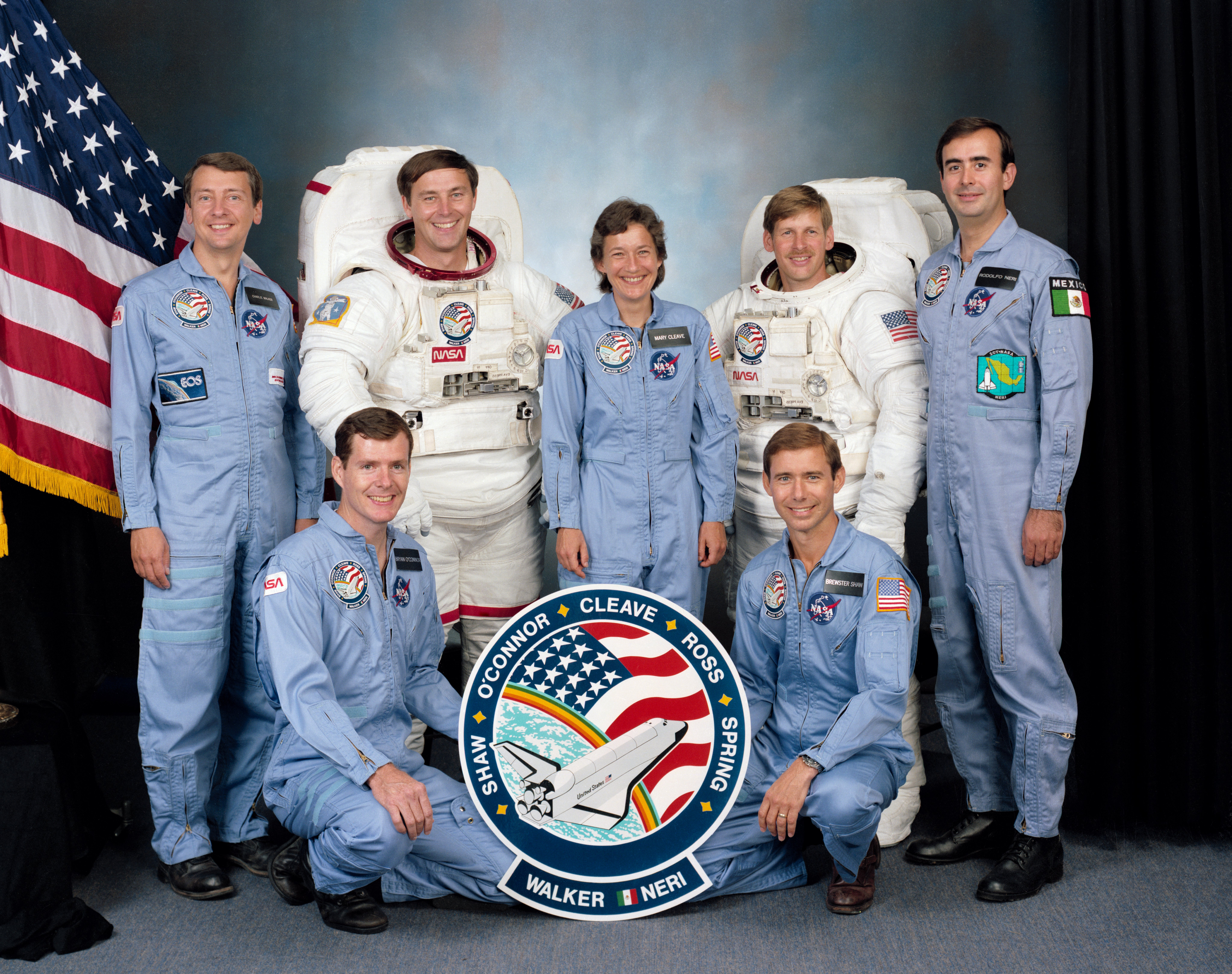 The crew assigned to the STS-61B mission included (kneeling left to right) Bryan D. O'conner, pilot; and Brewster H. Shaw, commander. On the back row, left to right, are Charles D. Walker, payload specialist; mission specialists Jerry L. Ross, Mary L. Cleave, and Sherwood C. Spring; and Rodolpho Neri Vela, payload specialist. Launched aboard the Space Shuttle Atlantis November 28, 1985 at 7:29:00 pm (EST), the STS-61B mission's primary payload included three communications satellites: MORELOS-B (Mexico); AUSSAT-2 (Autralia); and SATCOM KU-2 (RCA Americom. Two experiments were conducted to test assembling erectable structures in space: EASE (Experimental Assembly of Structures in Extravehicular Activity), and ACCESS (Assembly Concept for Construction of Erectable Space Structure). In a joint venture between NASA/Langley Research Center in Hampton, VA and Marshall Space Flight Center (MSFC), the Assembly Concept for Construction of Erectable Space Structures (ACCESS) was developed and demonstrated at MSFC's Neutral Buoyancy Simulator (NBS). The primary objective of this experiment was to test the ACCESS structural assembly concept for suitability as the framework for larger space structures and to identify ways to improve the productivity of space construction.